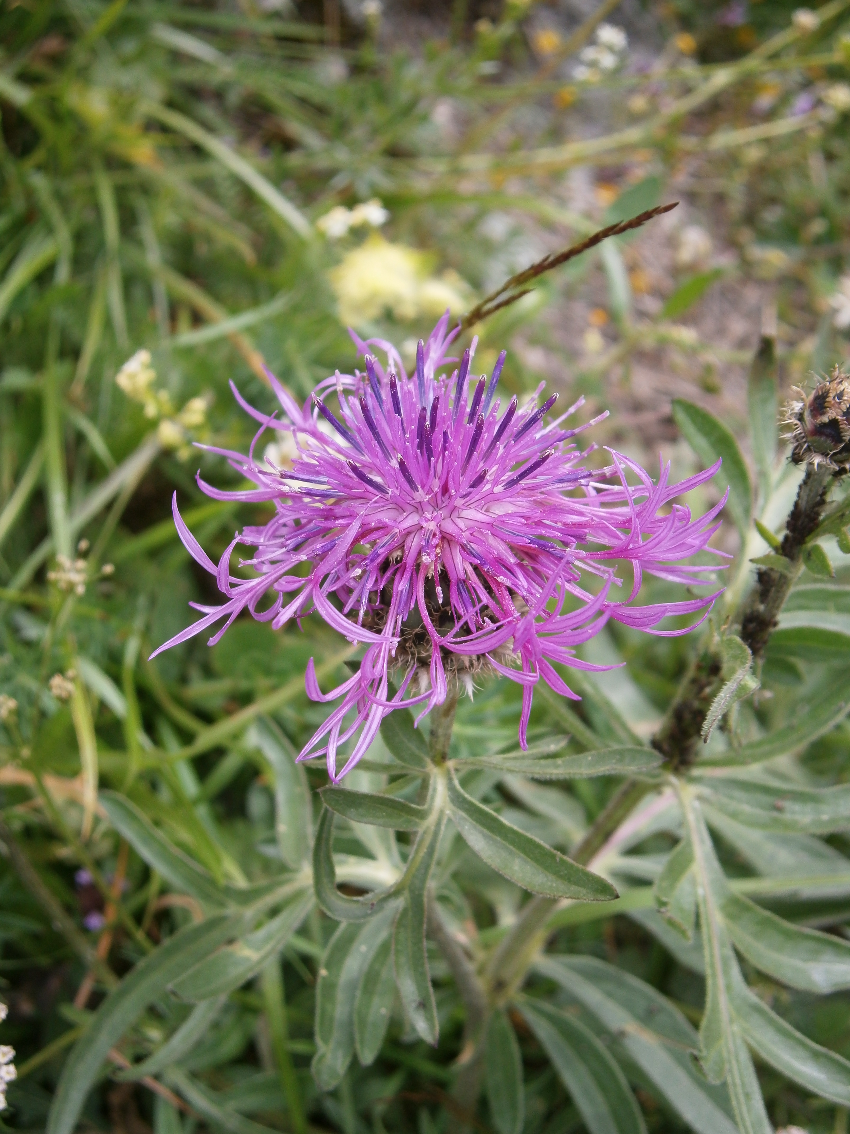 Centaurea alpestris